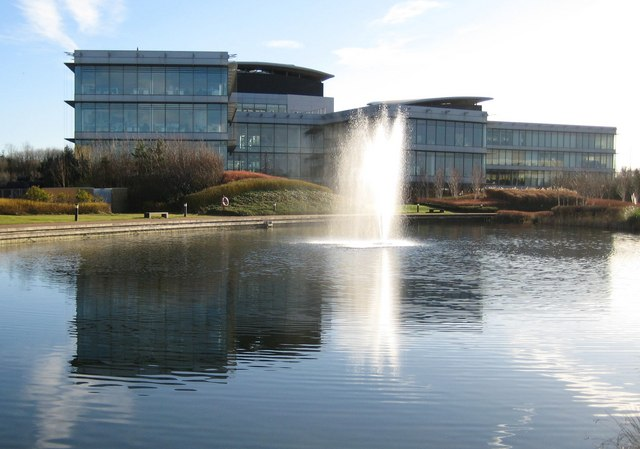 Oxford Science Park. The Oxford Science Park is a joint venture development between Magdalen College and Prudential Insurance. Behind the fountain is the Danby Building, an office block completed in 2002, while to the right is the Sherard Building, also offices and also completed in 2002. The Oxford Science Park's website is here